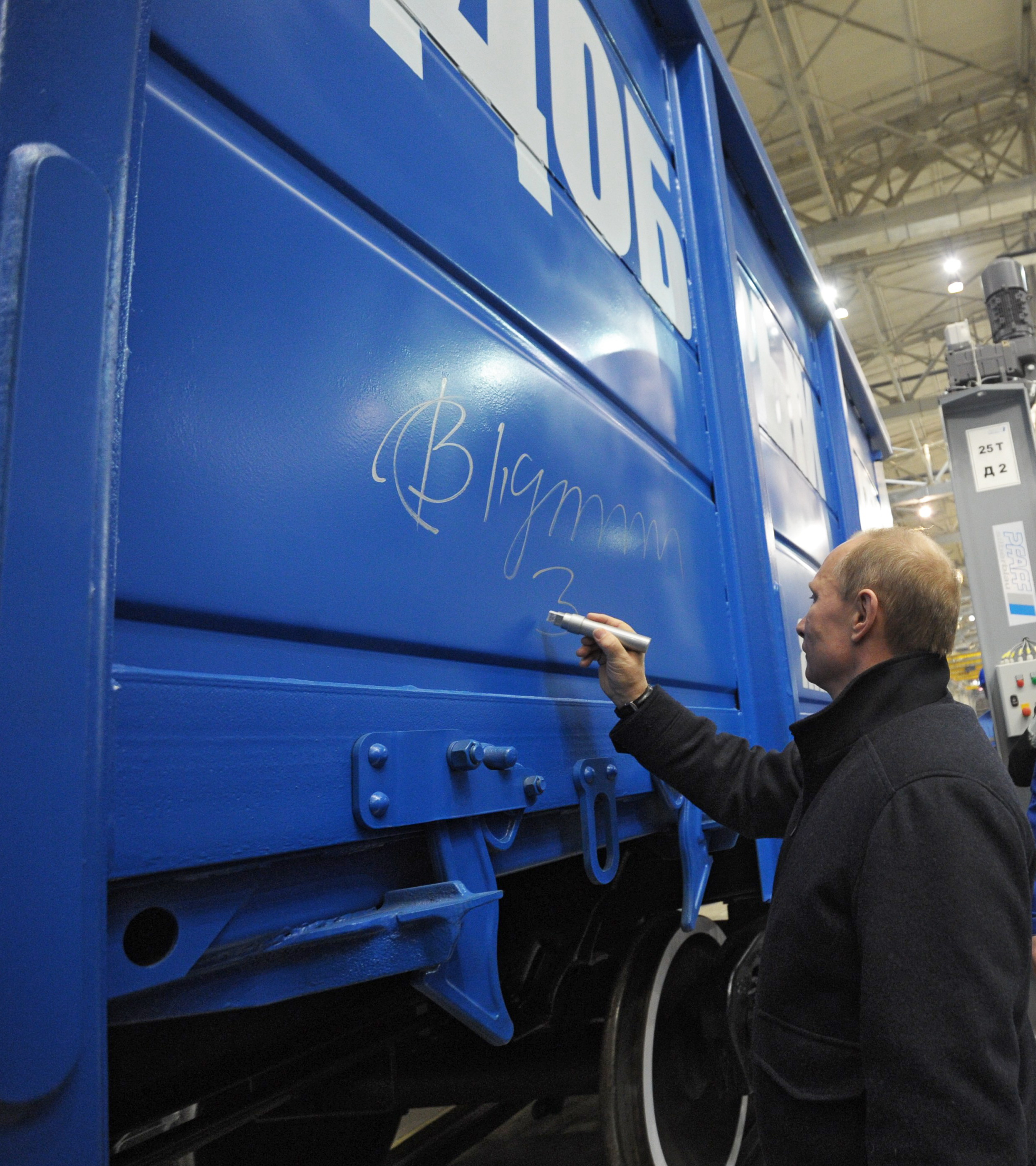 Владимир Путин посещает ТВСЗ, 2012 год